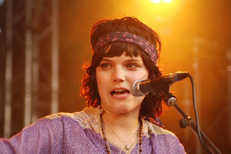 Soko at the Eurockéennes 2008